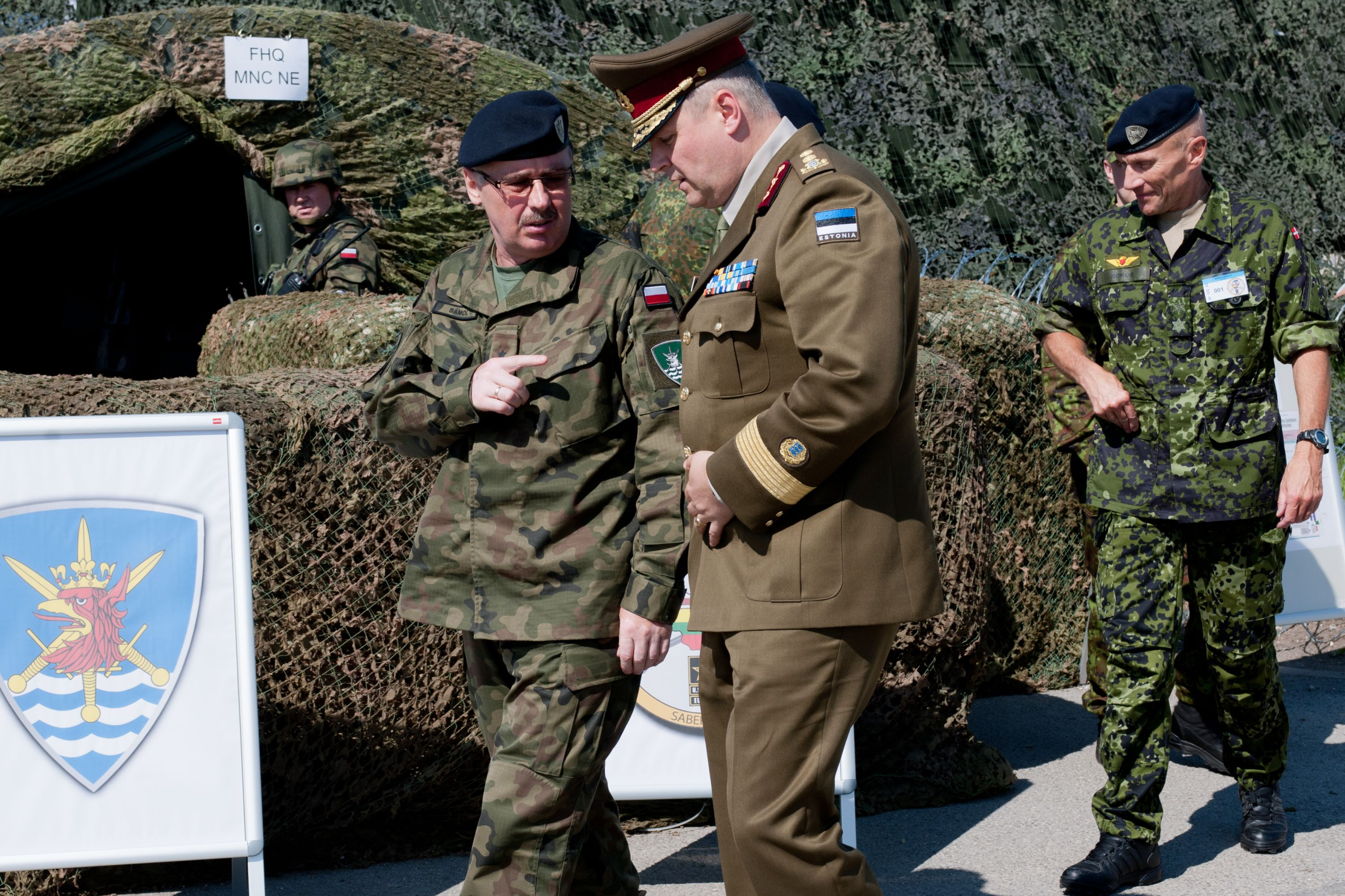 PABRADE, Estonia -- Estonian Chief of Defence Maj. Gen. Riho Terras and Commander of Multinational Corps Northeast Maj. Gen. Boguslaw Samol talk during a demonstration here June 6. Saber Strike 2013 is a U.S. Army Europe-led, multinational, tactical field training and command post exercise occurring in Lithuania, Latvia and Estonia June 3-14 that involves more than 2,000 personnel from 14 different countries. The exercise trains participants on command and control as well as interoperability with regional partners and is designed to improve joint, multinational capability in a variety of missions and to prepare participants to support multinational contingency operations worldwide.(NATO photo by Staff Sgt. Halec Pola)